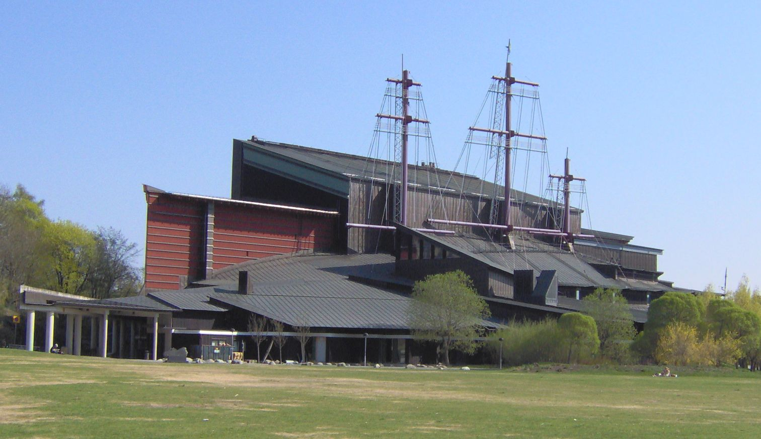 Vasa Museum, Djurgården, Stockholm, Sweden, housing the 17th century ship Vasa.